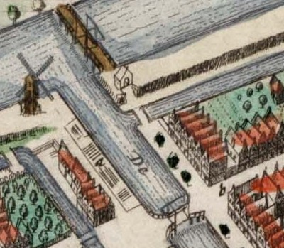 This file has been extracted from another file: LeidenBlaeu.jpg Detail of the map of Leiden by J. Blaeu (1649) showing the Herenpoort (city gate)